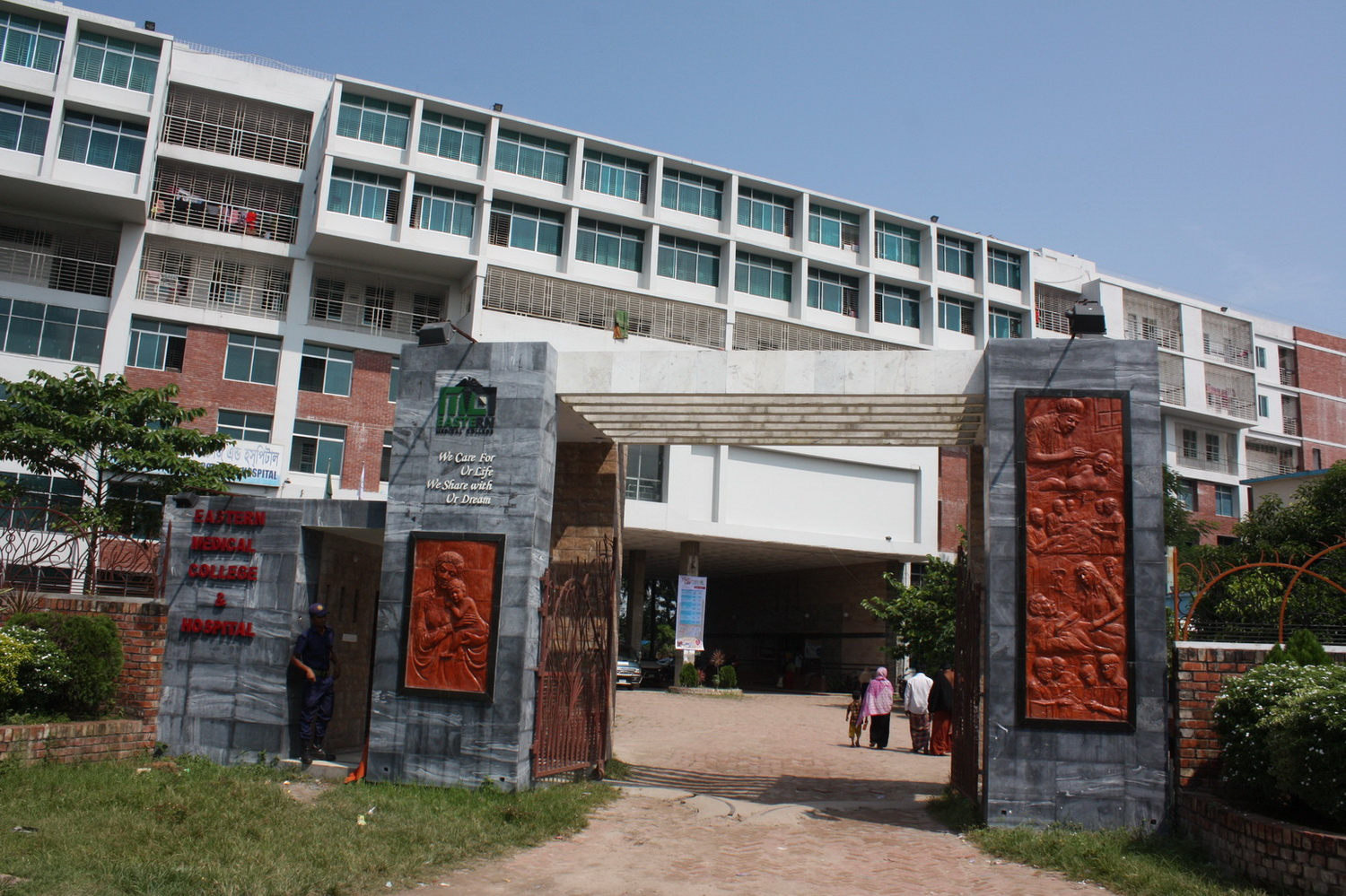 EMC Front View